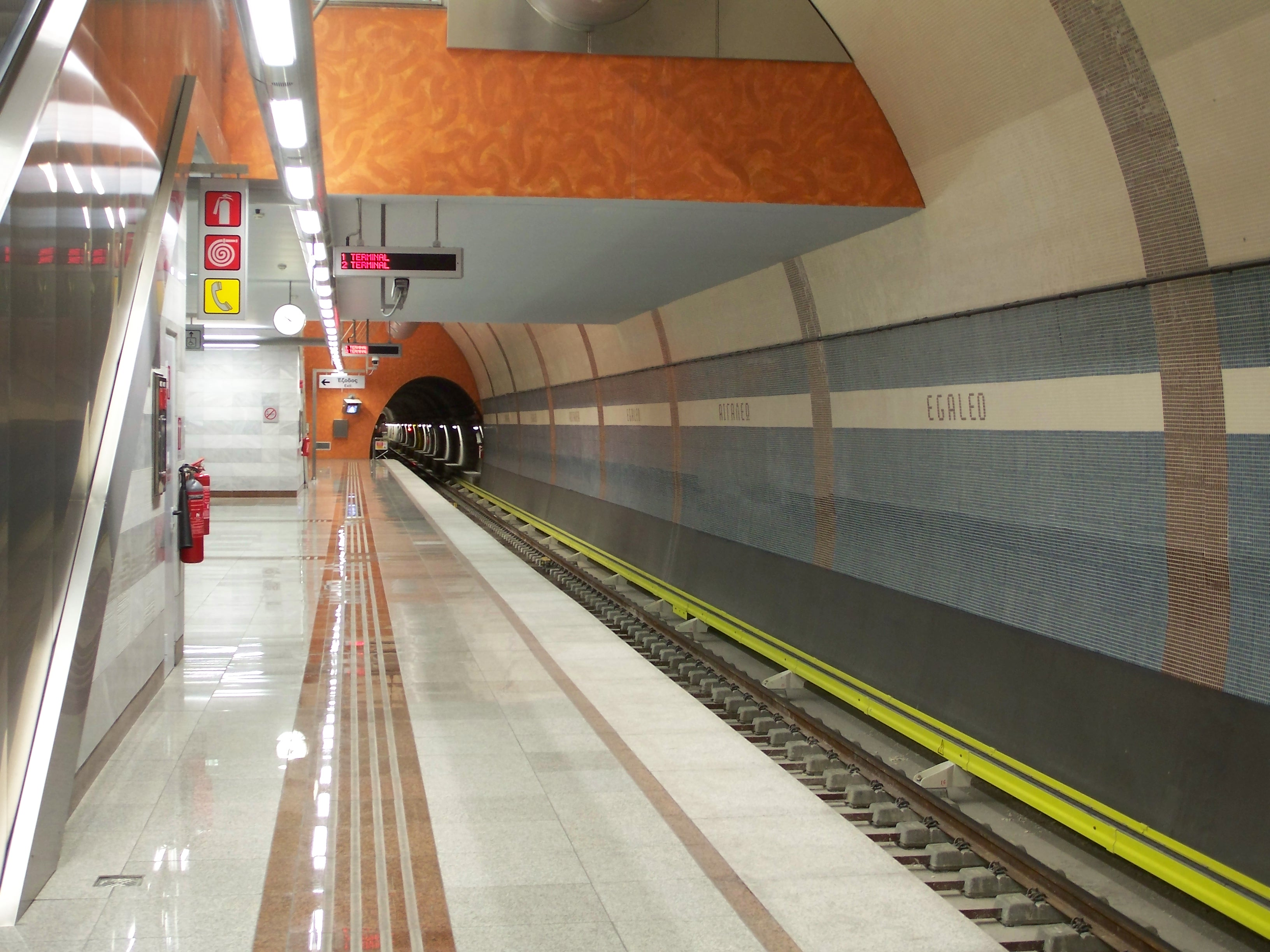 Aigaleo station of Athens Metro system